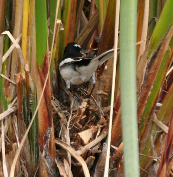 White-browed Wagtail or Large Pied Wagtail Motacilla maderaspatensis in Hyderabad, India.